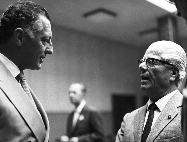 Gianni Agnelli (1921–2003, at left) and Battista Pininfarina (1896–1966, at right)